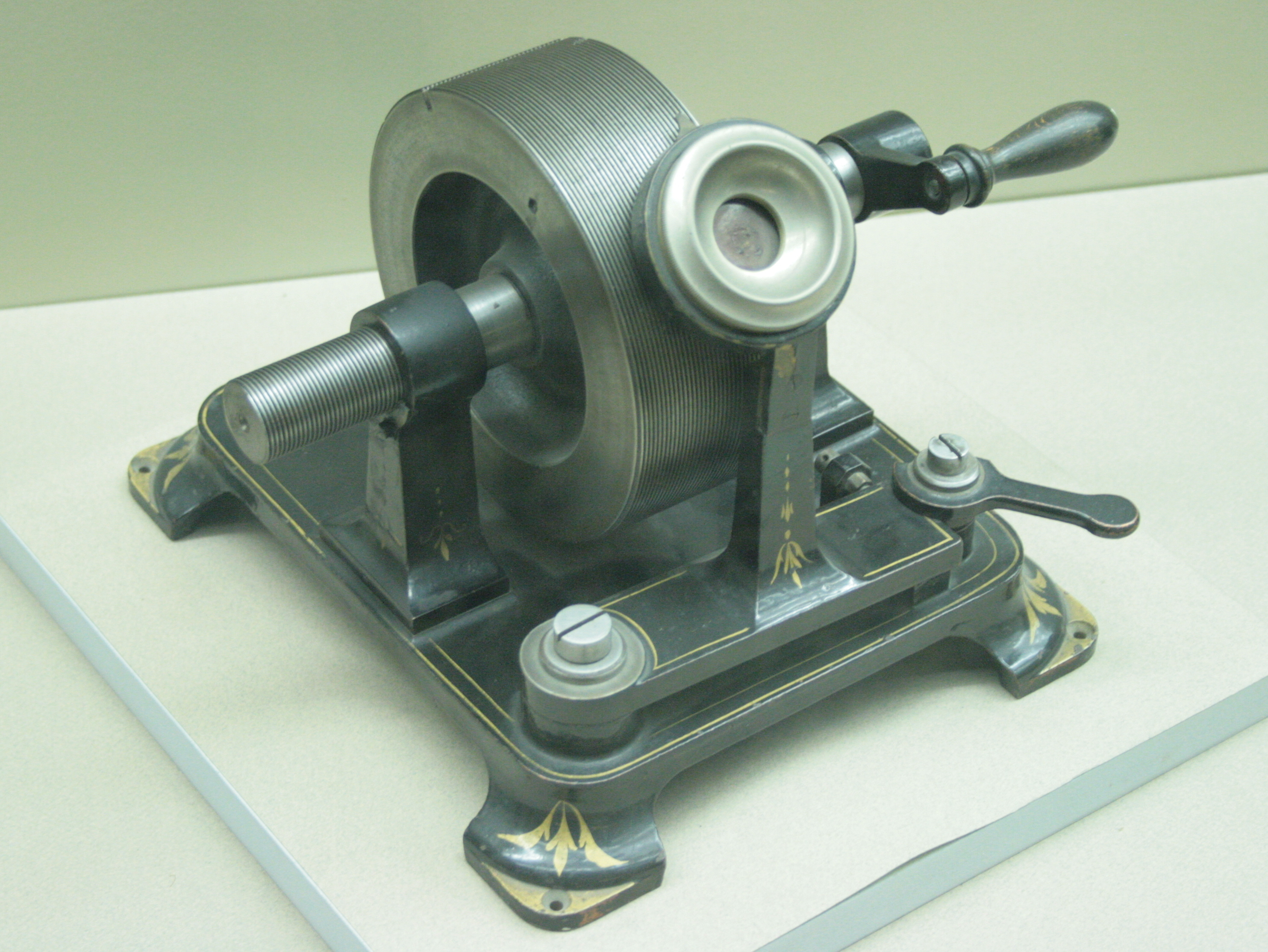 phonograph od Edison